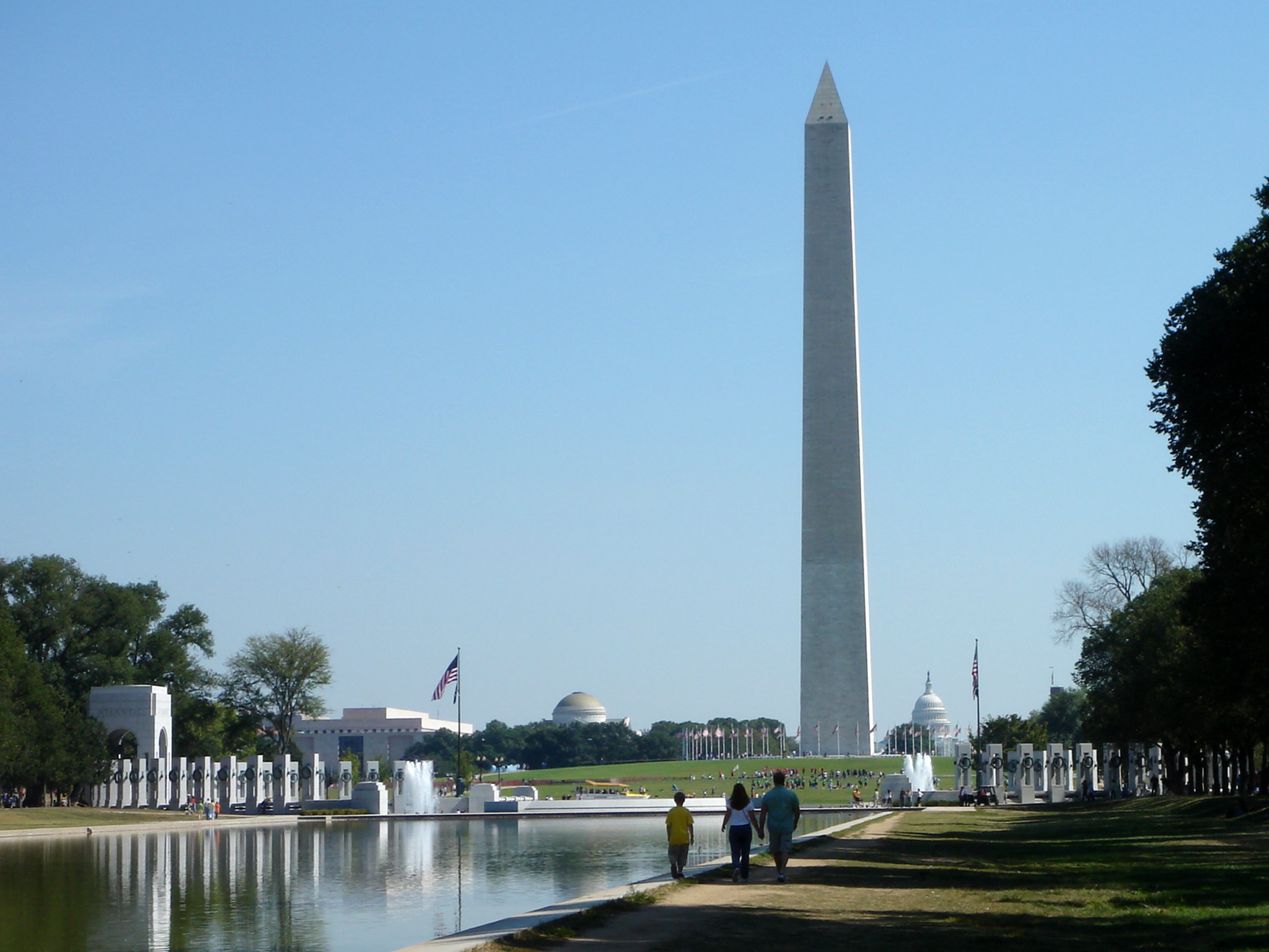 Obelisk and reflecting pool, National Mall at Washington, D.C.